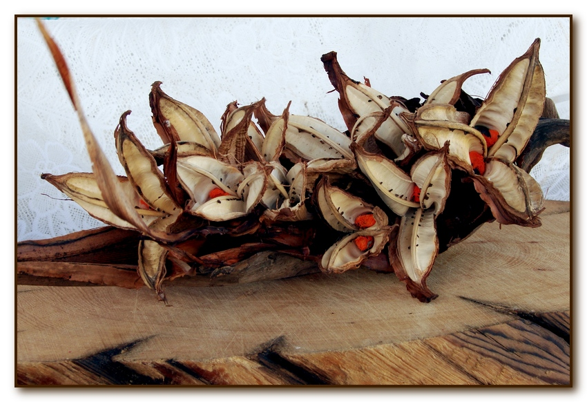 Seeds of "Giant white Bird of Paradise" Native of subtropical South Africa The name Nicolai is in honour of Czar Nicolas of Russia. Location: my garden in Brisbane, Australia